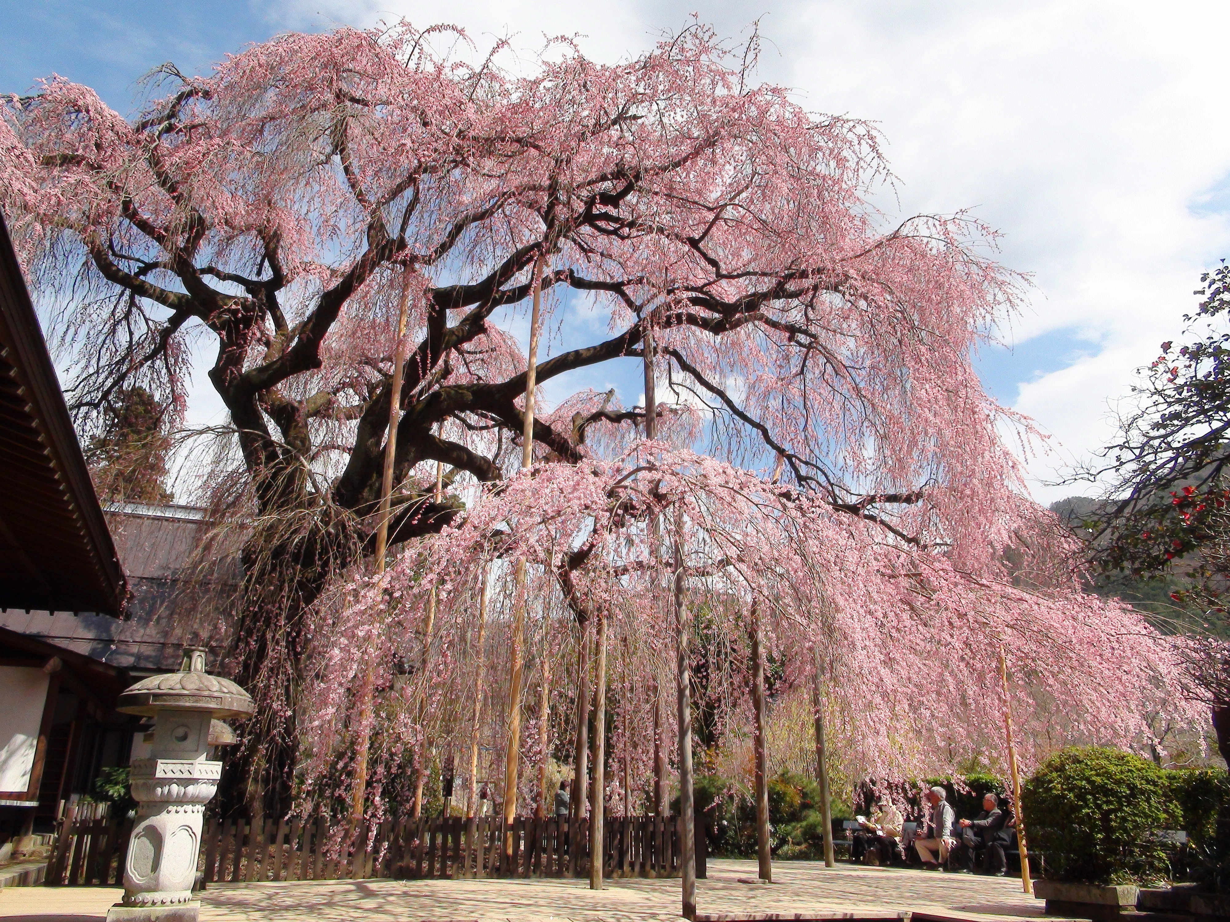 The side of Jiunji-Temple Prunus pendula